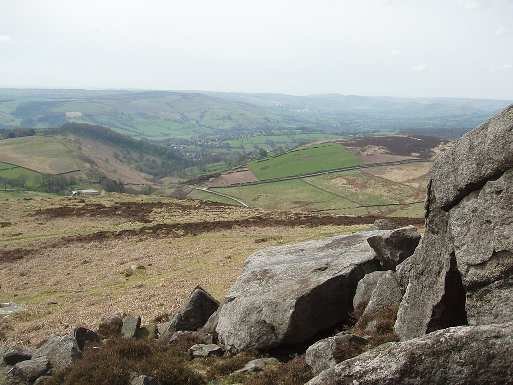 Looking down from Higger Tor over Hathersage, Hope Valley